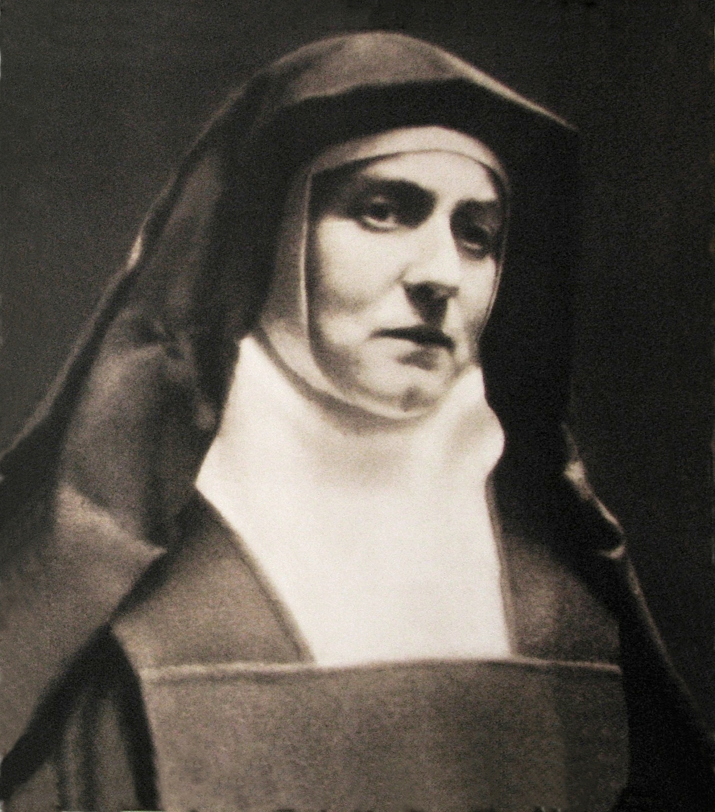 The so-called "passport" photo taken in the doorway of the Cologne Carmel. A passport picture that Edith Stein (1891–1942) had to have taken for her passport (ca. December 1938-1939) before moving to Echt, Netherlands. Edith Stein, a German Jewish philosopher, converted to the Roman Catholic Church, became a Discalced Carmelite nun and took the religious name of Teresa Benedicta of the Cross. On 7 August 1942, she was deported to the Auschwitz concentration camp and killed in a mass gas chamber.